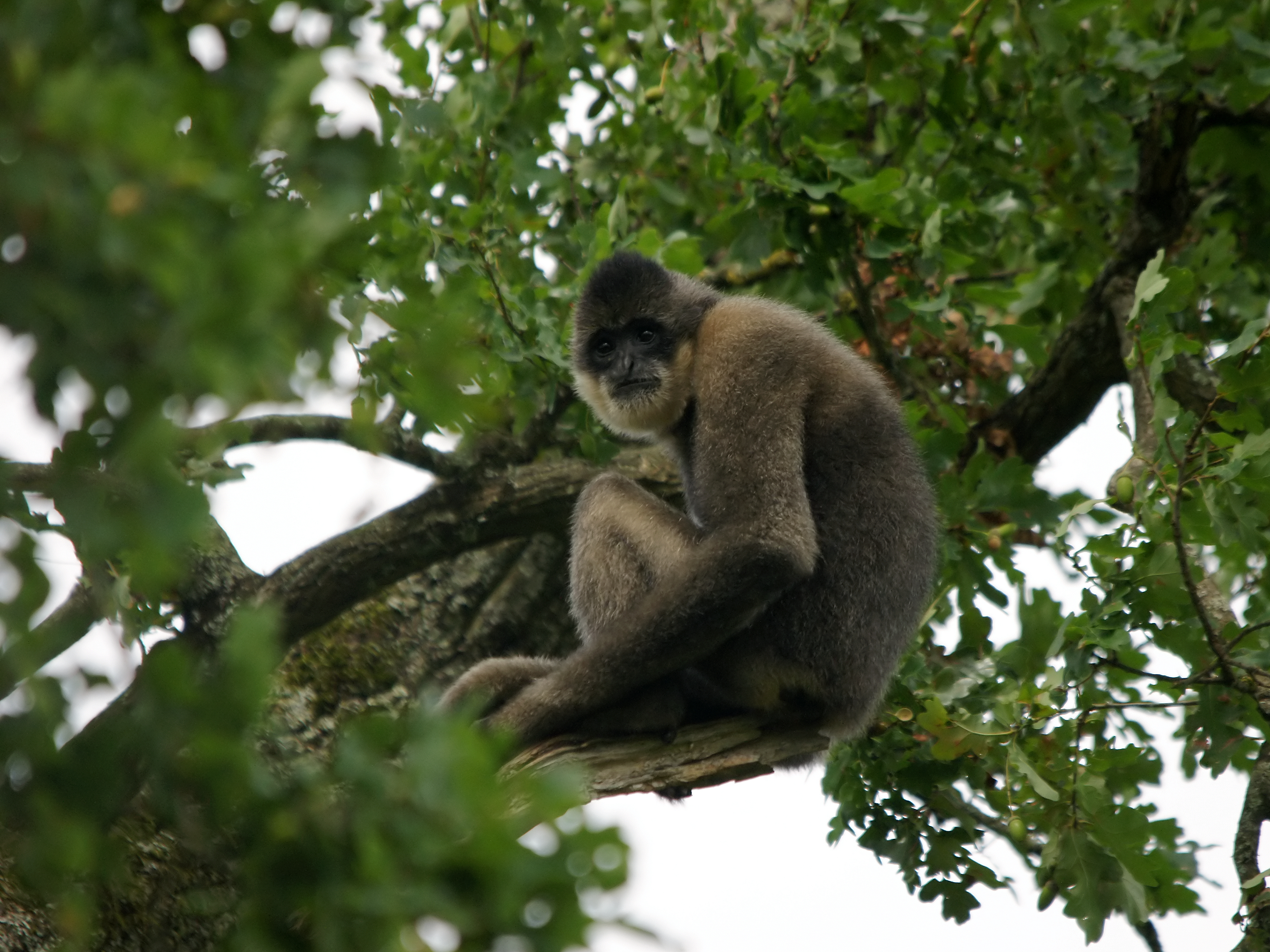 Northern White-cheeked Gibbon at La Vallée de Singes, at Romagne (Vienne, Poitou-Charentes), France.